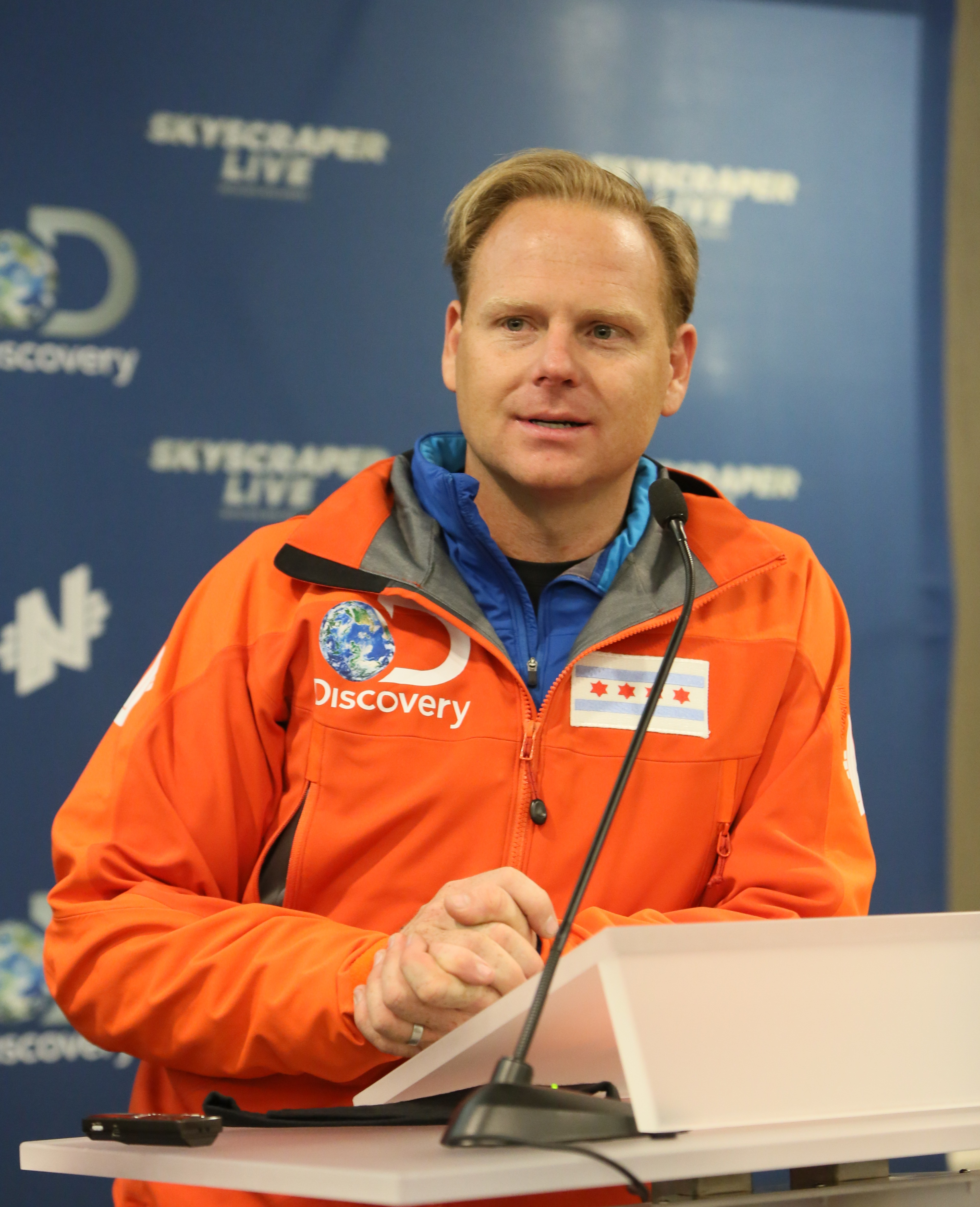 Nik Wallenda at Skyscraper Live press conference in Chicago. November 2, 2014.